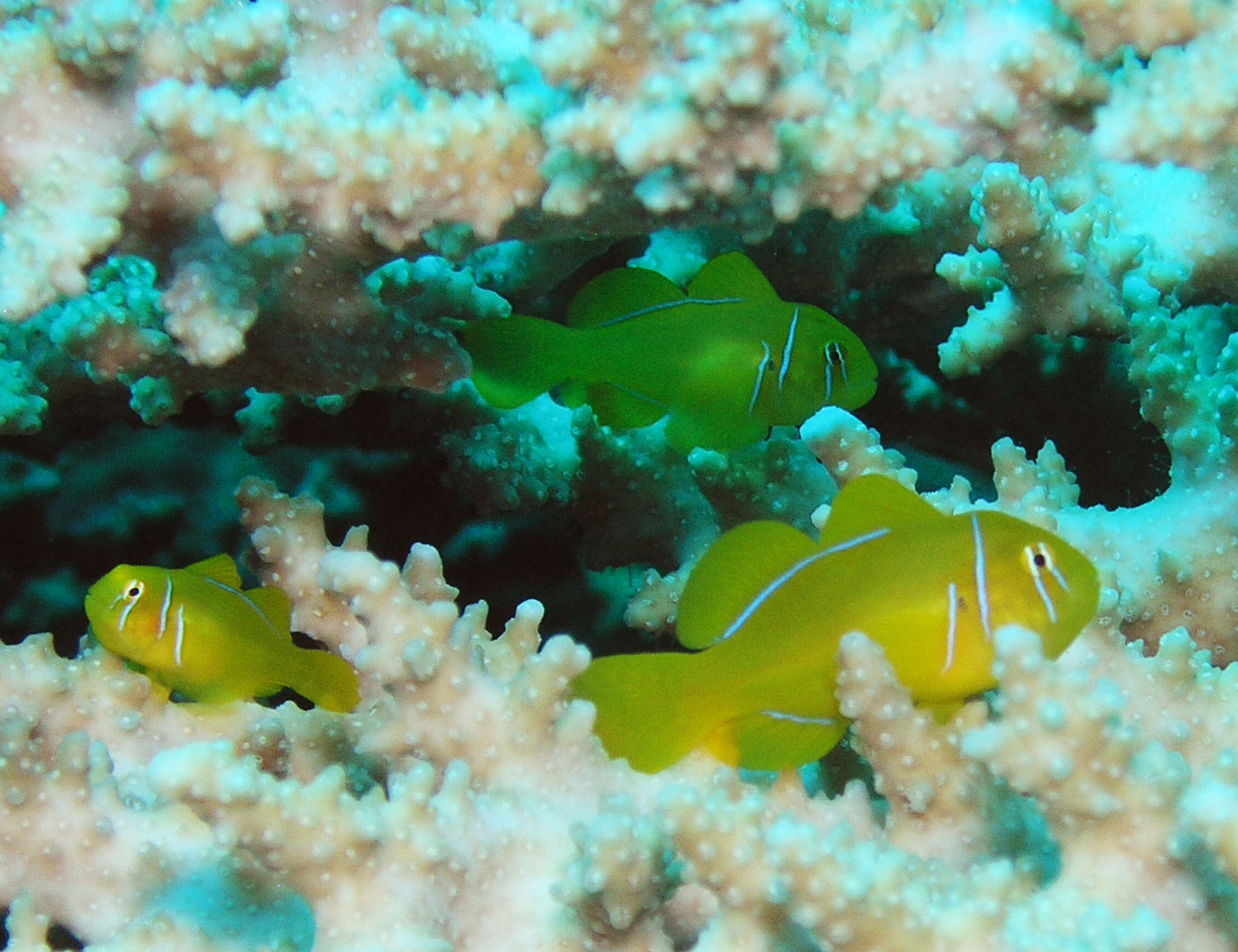 Lemon Coral Goby hiding in table coral on Zak's Table, Taba. You are free to use this photo providing you include a link to